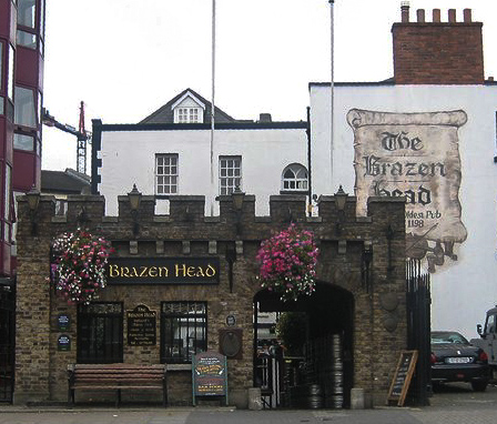 The Brazen Head, Lower Bridge Street, Dublin; Dating from 1198 the Brazen Head is Ireland's oldest public house